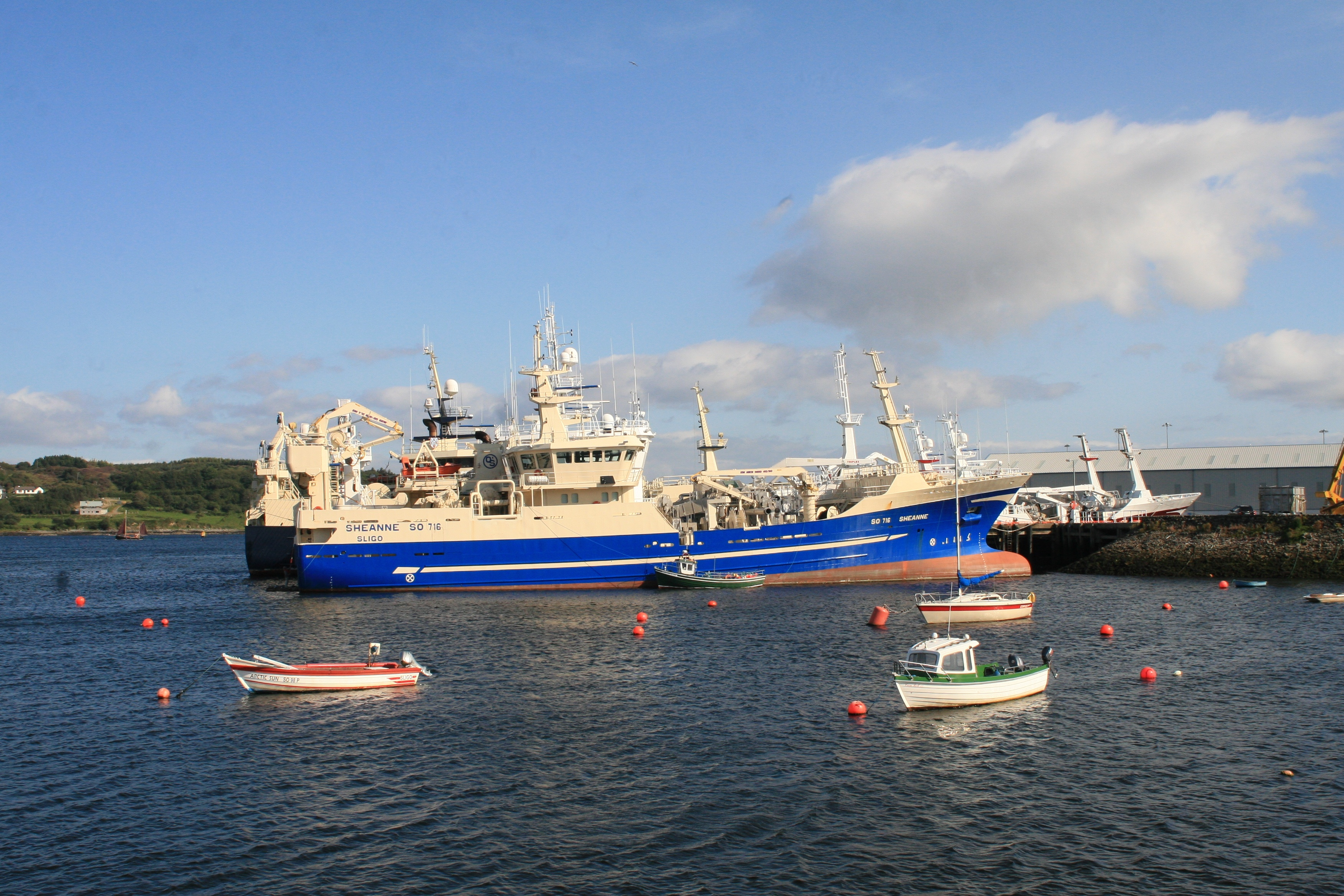 Killybegs, County Donegal, Ireland Fishing trawler SO 716 Sheanne in Killybegs Harbour (IMO number: 9280093, callsign: EIGP).